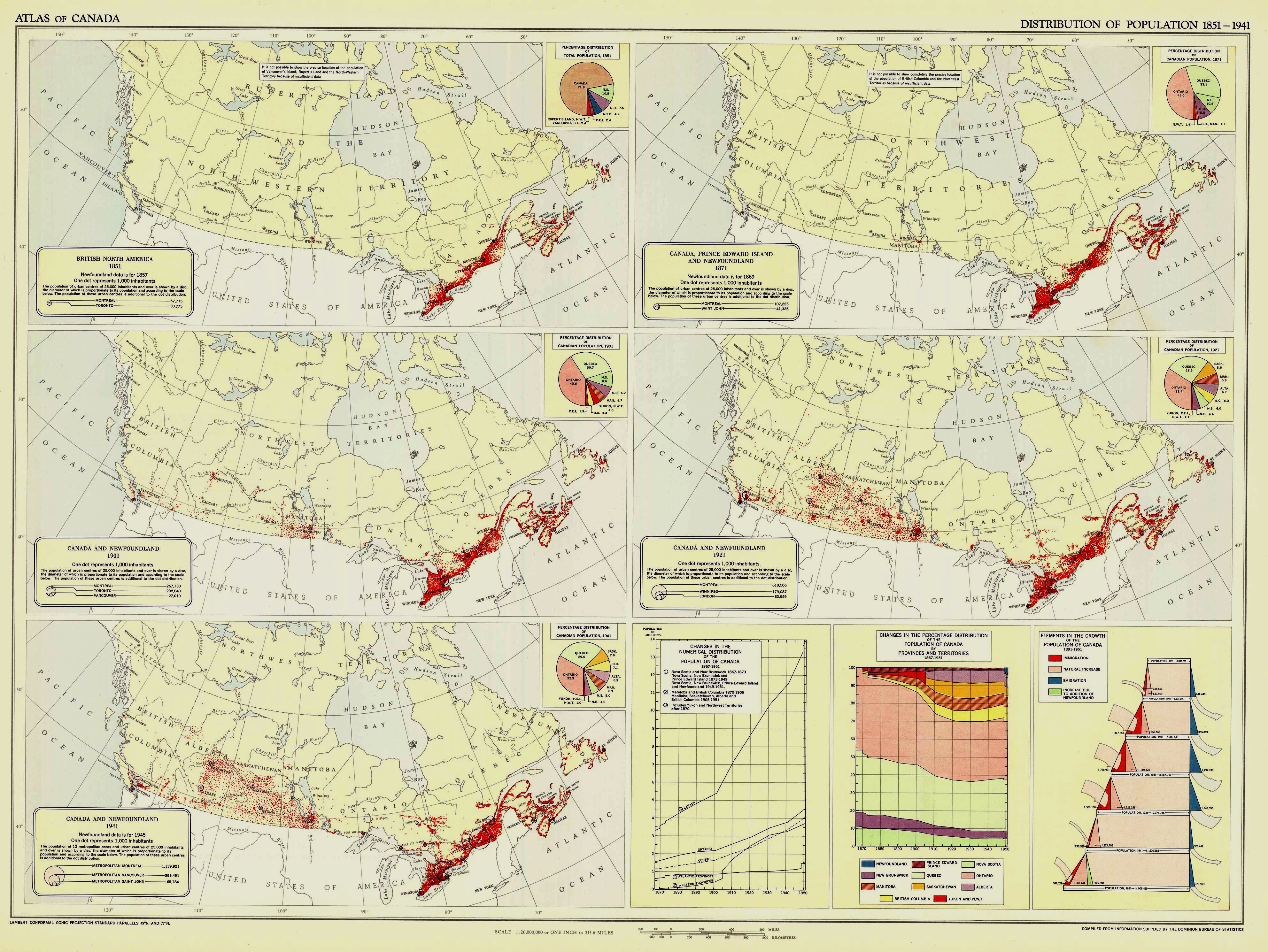 The maps and graphs on this plate show the distribution of population in what is now Canada for the years 1851, 1871, 1901, 1921 and 1941. The five maps display the boundaries of the various colonies, provinces and territories for each date. Also shown on these five maps are the locations of principal cities and settlements. These places are shown on all of the maps for reference purposes even though they may not have been in existence in the earlier years. Each map is accompanied by a pie chart providing the percentage distribution of Canadian population by province and territory corresponding to the date the map is based on. It should be noted that the pie chart entitled Percentage Distribution of Total Population, 1851, refers to the whole of what was then British North America. The name Canada in this chart refers to the province of Canada which entered confederation in 1867 as Ontario and Quebec. The other pie charts, however, show only percentage distribution of population in what was Canada at the date indicated. Three additional graphs are included on this plate and show changes in the distribution of the population of Canada from 1867 to 1951, changes in the percentage distribution of the population of Canada by provinces and territories from 1867 to 1951 and elements in the growth of the population of Canada for each ten-year period from 1891 to 1951.